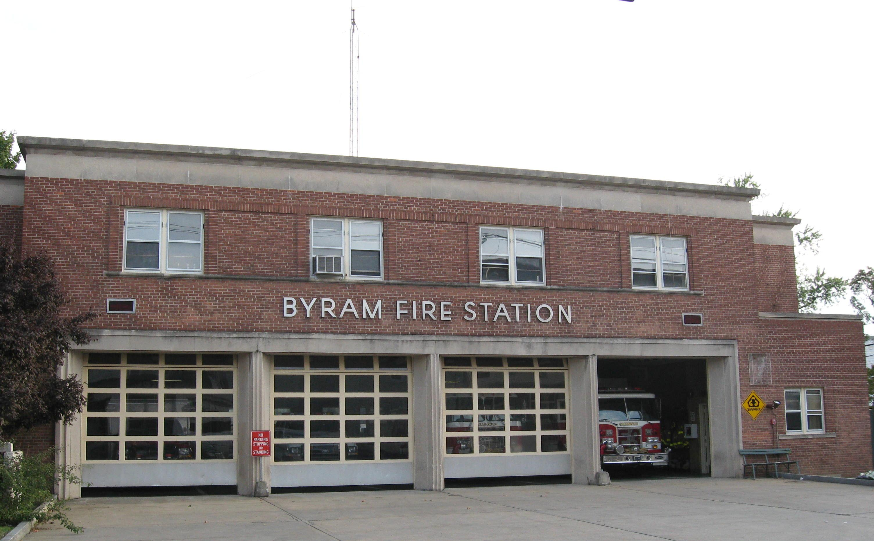 Looking southeast at Byram Fire Station in Greenwich, Connecticut on a sunny late afternoon.